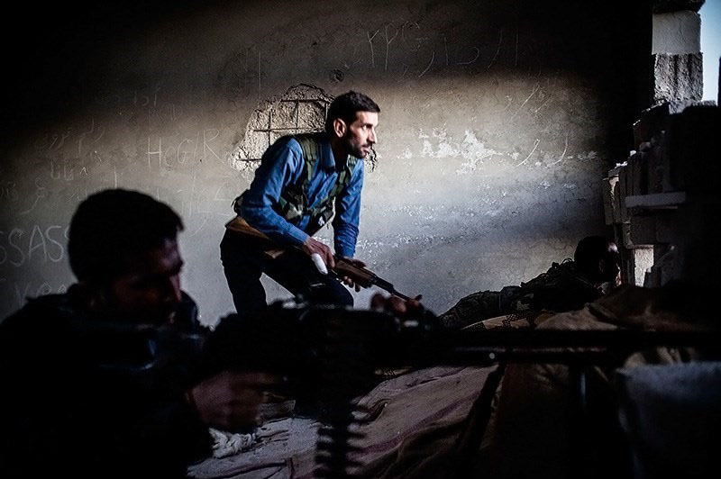 Fighting between Kurdish gunmen and the terrorists from al-Nusra Front is underway in the town of Ras al-Ayn in Hassakeh Province